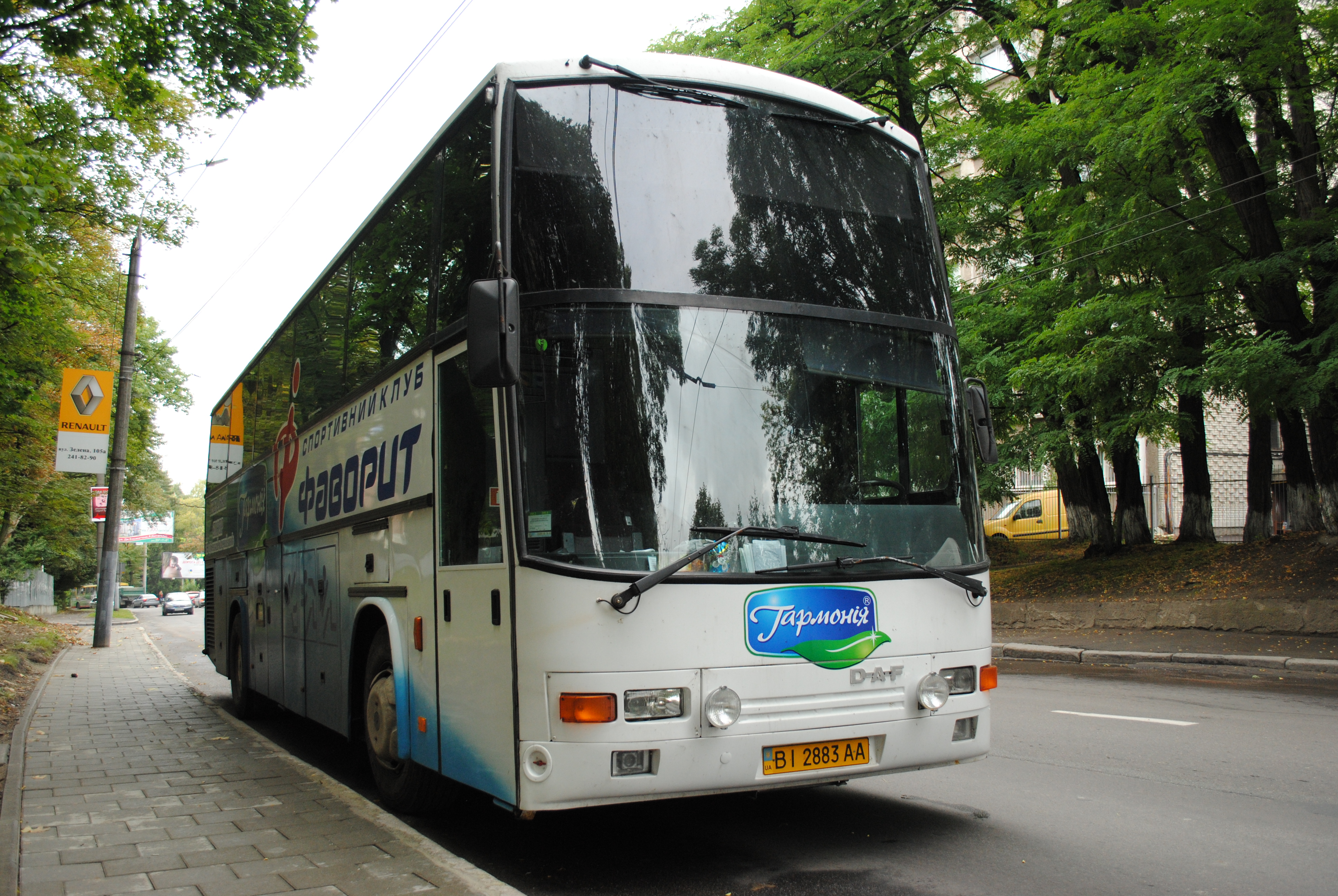 Smit Mercurius bus, which belongs to Favorit sport club, Poltava